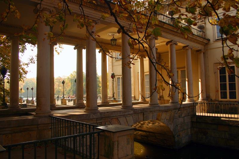 Palac na Wodzie in Warsaw with the permission of the authers Marek and Ewa Wojciechowscy [1]